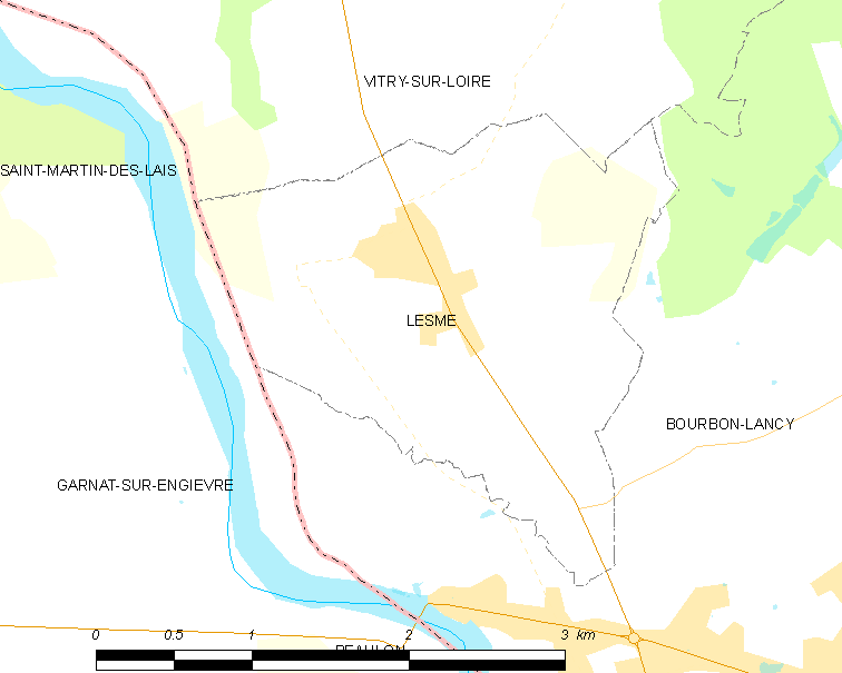 Map of French municipality